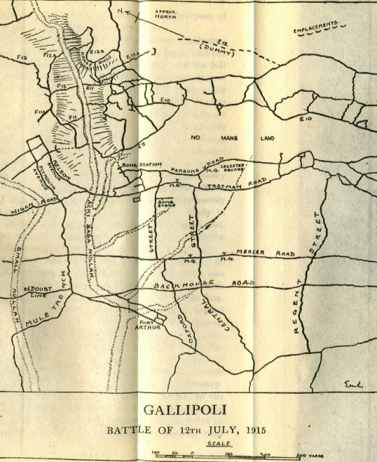 Sketch Map showing area of British attack along Achi Baba Nullah, Gallipoli peninsula, 12 July 1915, including trench lines.